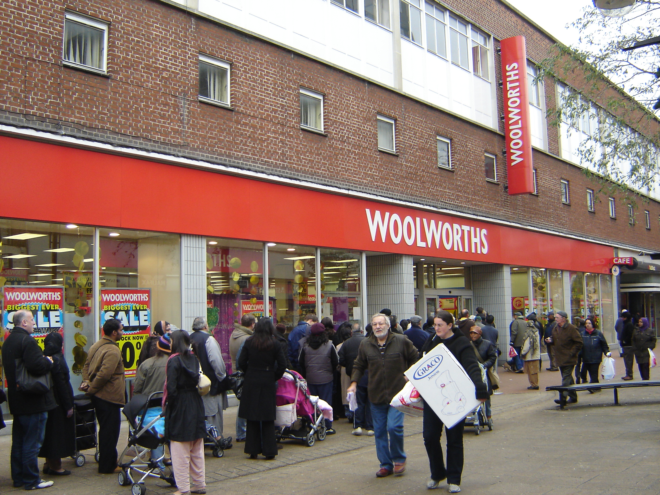 Bargain hunters in Hounslow queue to enter Woolworths in Hounslow the day after a closing clearance sale was announced.